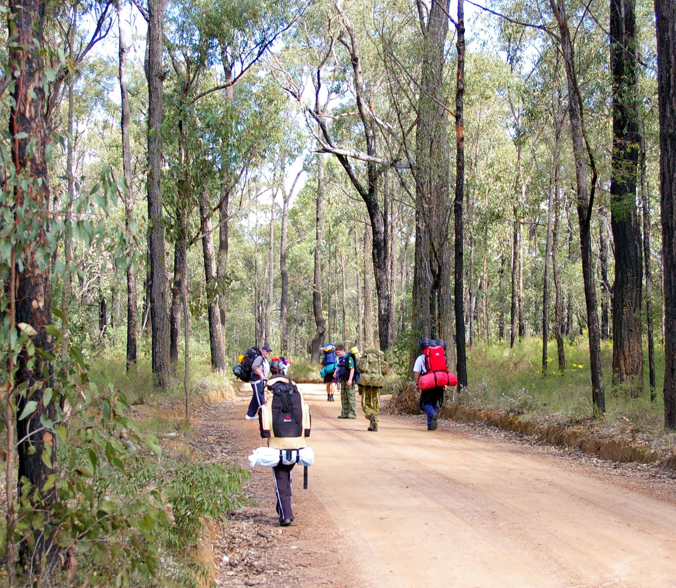 This image was made by me. It shows a view of scouts hiking along a fire trail in the Blue Mountains National Park. Albatross2147 07:45, 26 August 2007 (UTC)